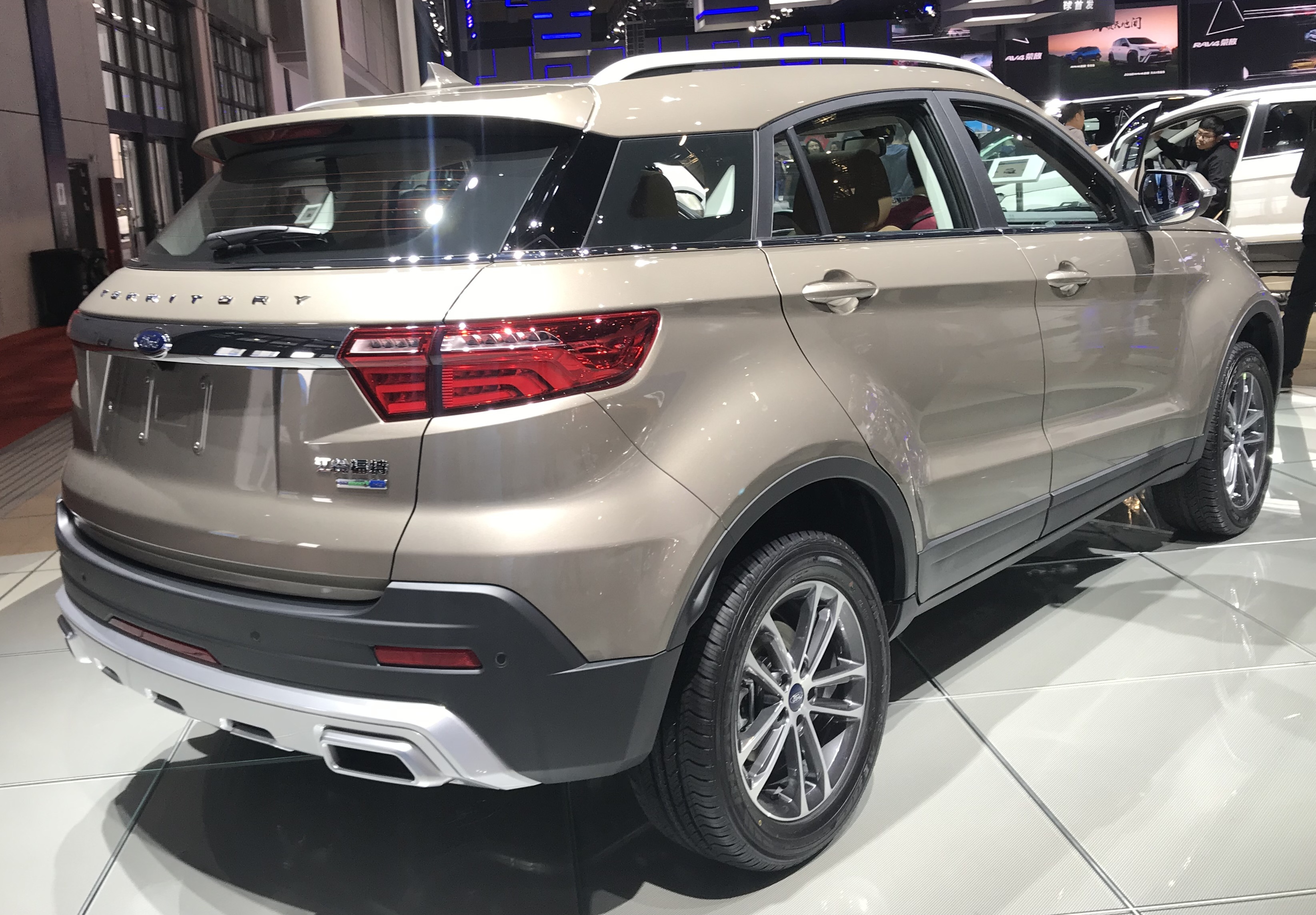 Ford Territory rear